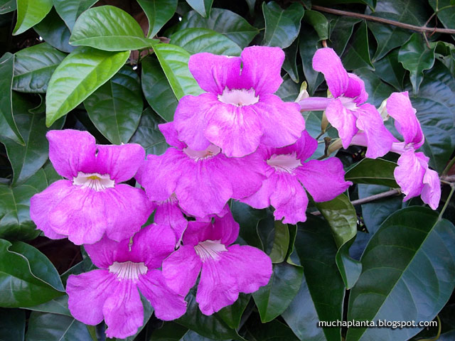 Phryganocydia corymbosa, Bignoniaceae